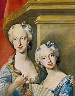 Detail of the 1743 portrait of the Spanish royal family showing the Infantas María Teresa Rafaela and María Antonia Fernanda